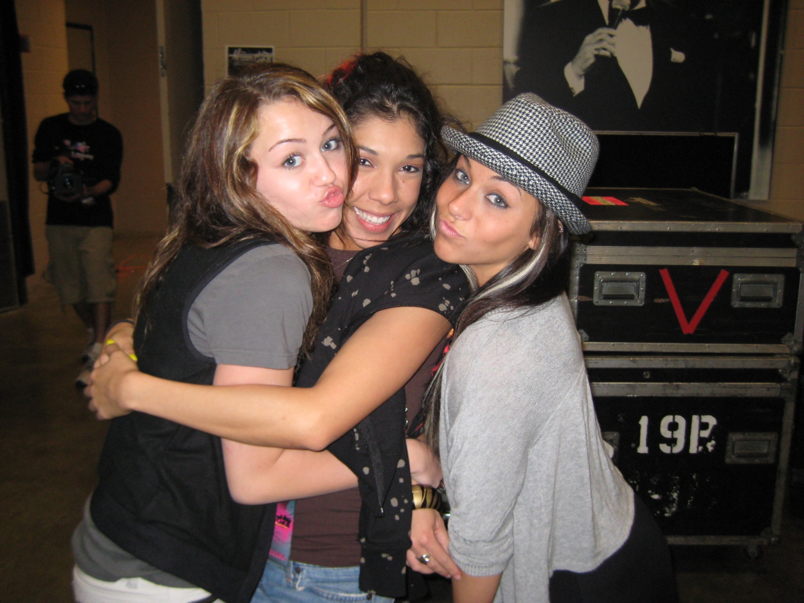 Miley with dancers Ashlee (of So You Think You Can Dance fame) and Mandy.